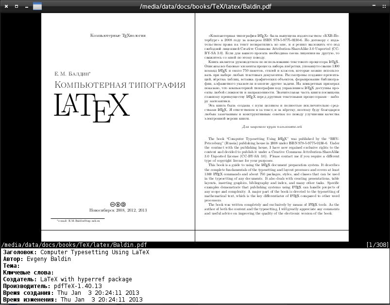 zathura info